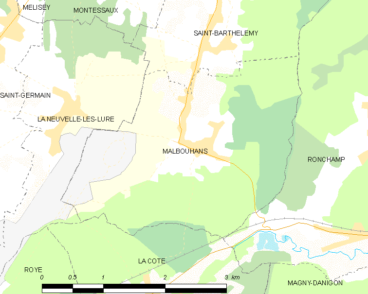 Map of French municipality